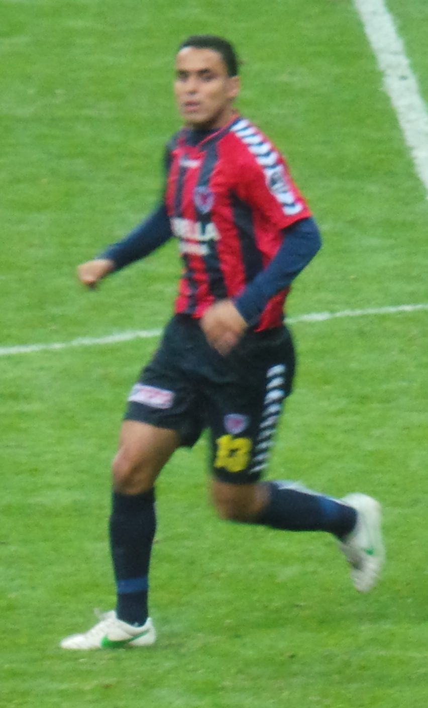 Ben Yahia wit MİY